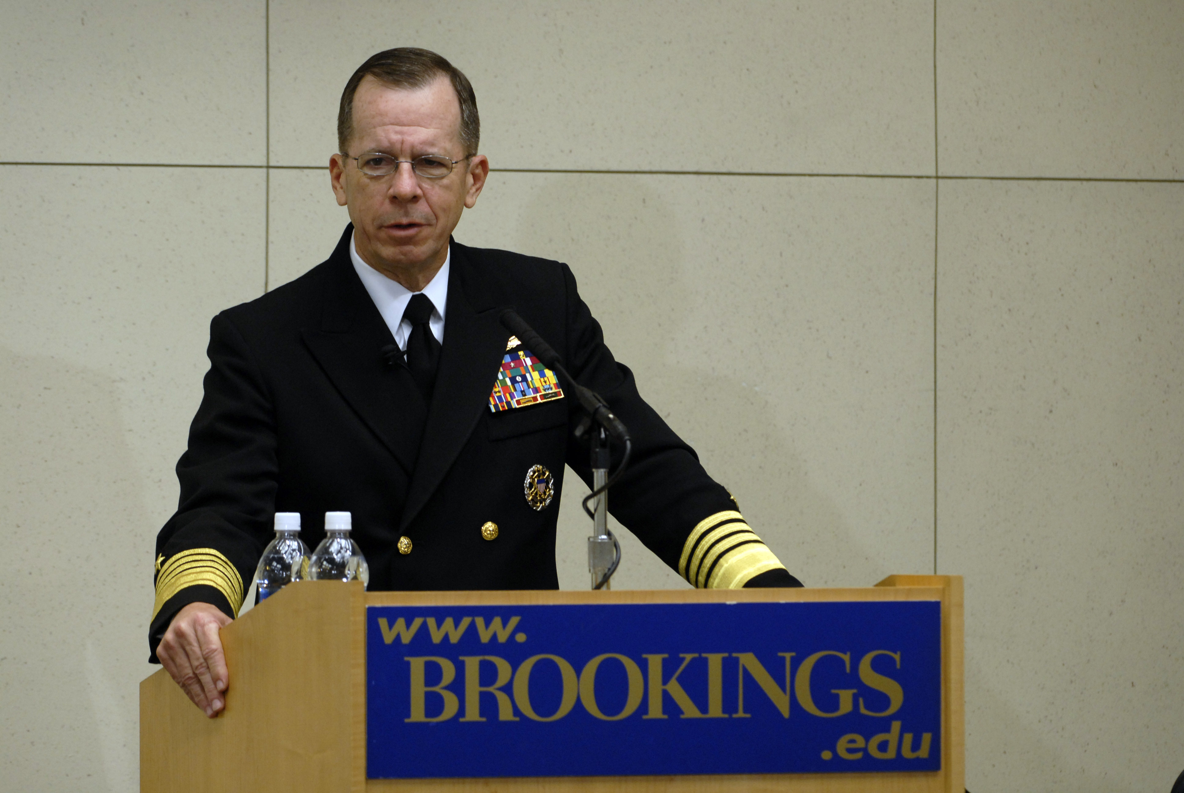 WASHINGTON (April 3, 2007) - Chief of Naval Operations (CNO) Adm. Mike Mullen speaks at the Brookings Institution on the Navy's effort to formulate a new maritime strategy. Adm. Mullen stressed the challenges the service faces over the long term beyond the war in Iraq in a presentation sponsored by the institution entitled, "The Nation's Navy: Beyond Iraq -- Sea Power for a New Era." U.S. Navy photo by Mass Communication Specialist 1st Class Chad J. McNeeley (RELEASED)